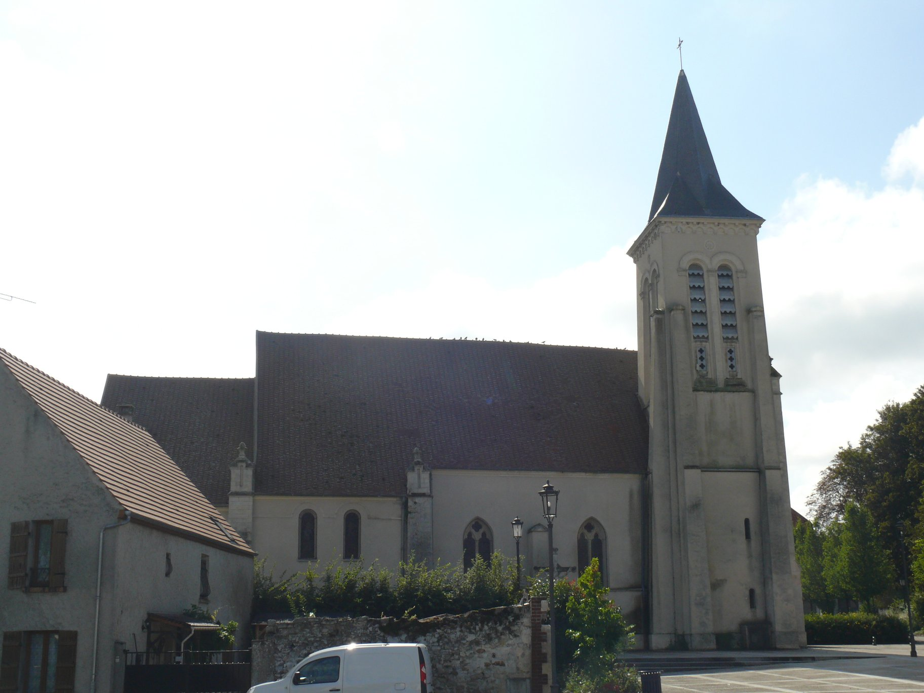 Saint-Pathus' church of Saint-Pathus (Seine-et-Marne, Île-de-France, France).